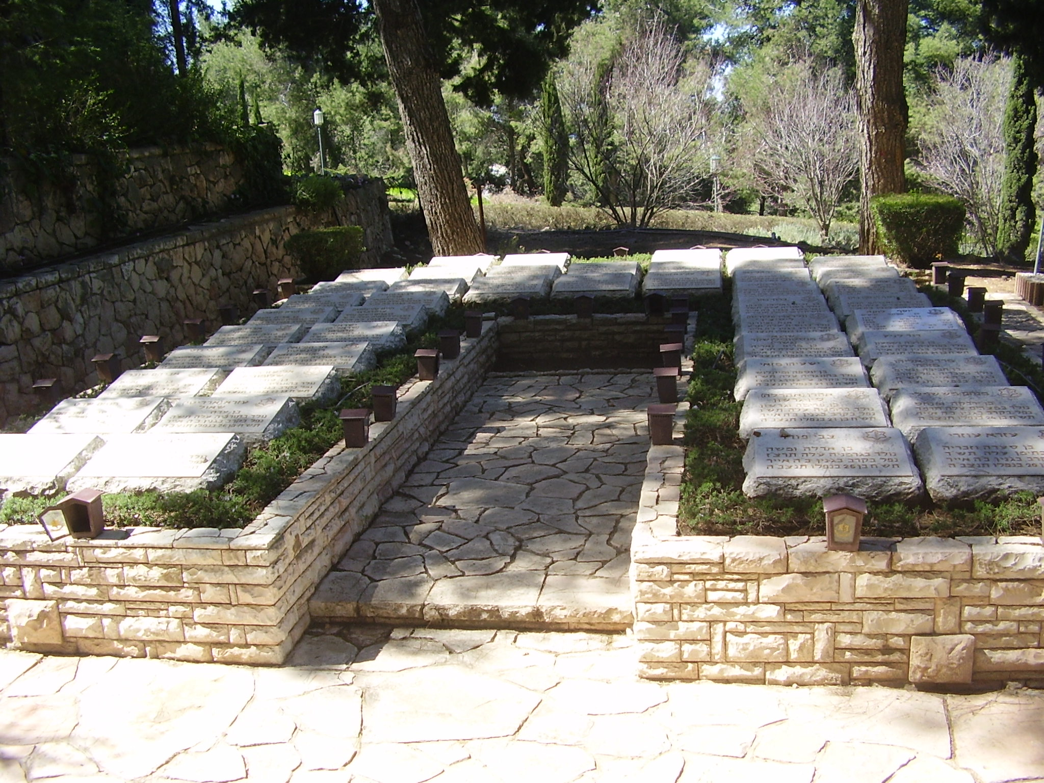 mass grave of soldiers who fell in the battle on jenin in the independence war (1948)